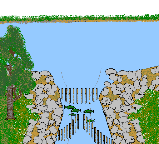 Drawn and released under liscense by wikibooks:User:gossman75, see his user talk.